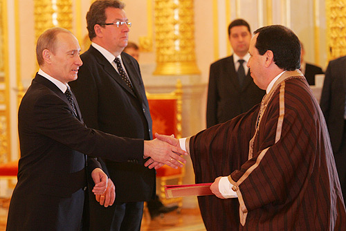 THE KREMLIN, MOSCOW. The Ambassador of the Republic of Tunisia, Khemaies Jinaoui, presents his credentials to the President of Russia.